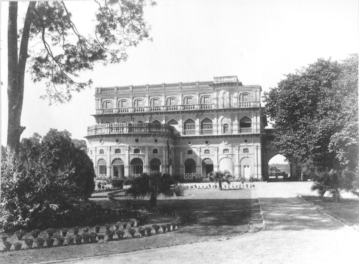 Khusroe Bagh Palace in Rampur, Uttar Pradesh